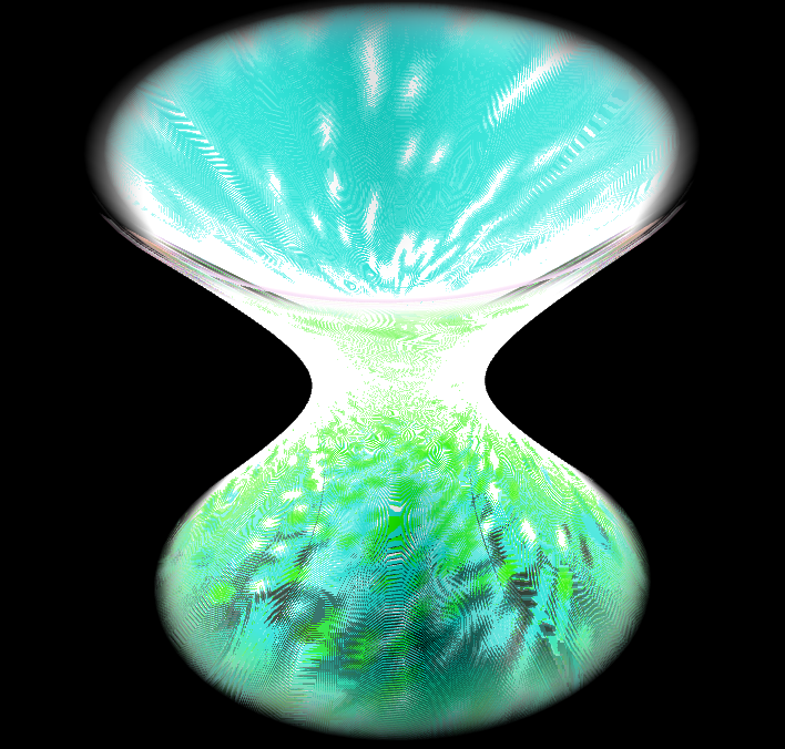 Hyperboloid of one sheet